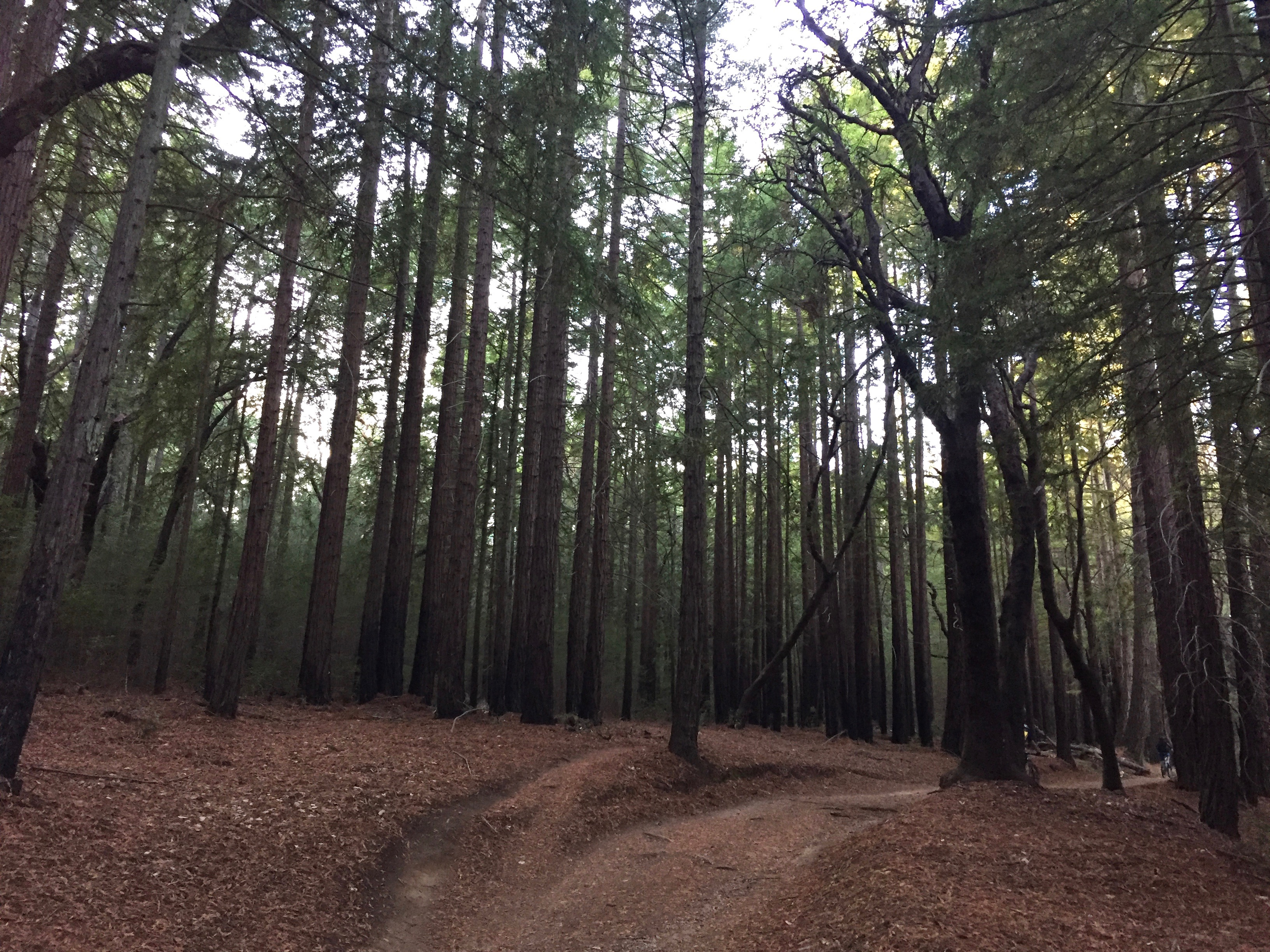 Costal redwood trees near UCSC.